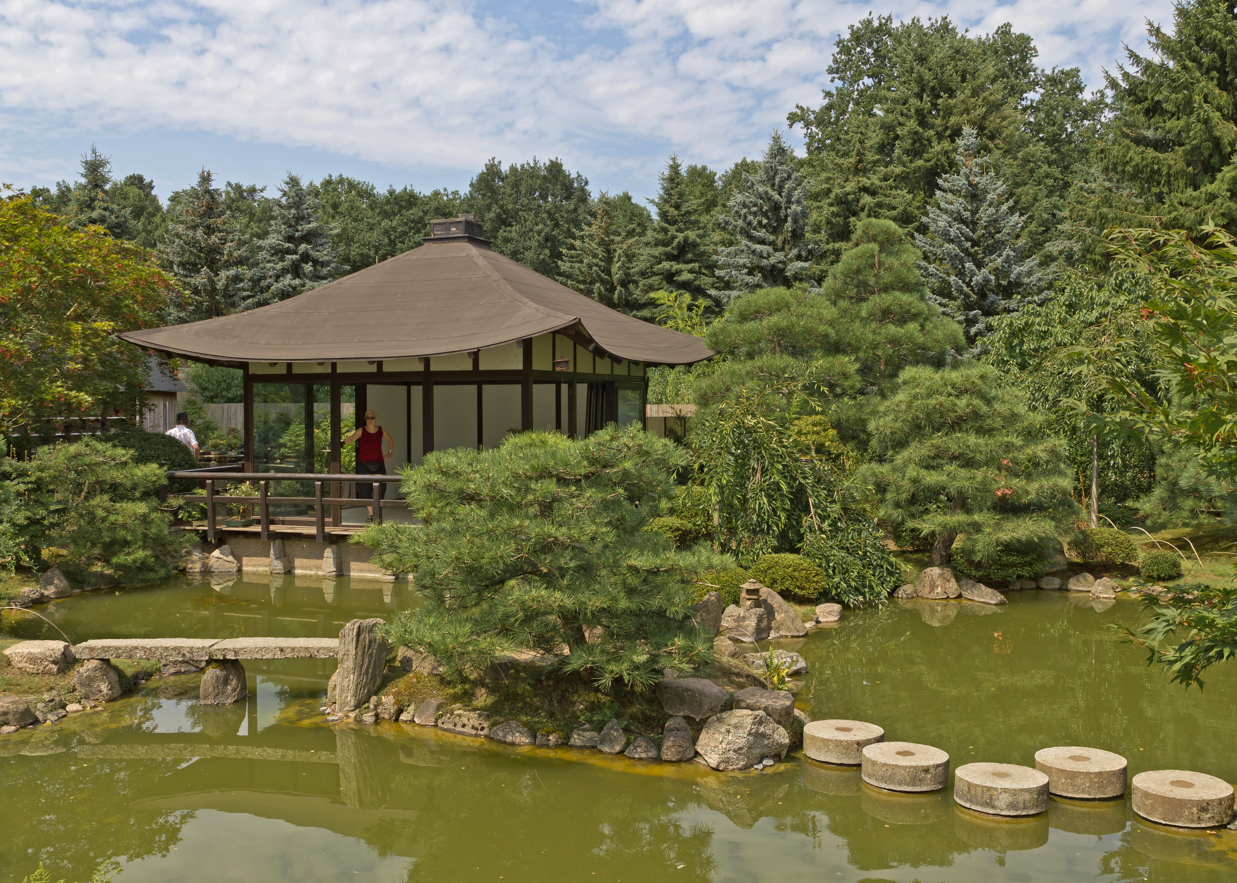 Japanese garden in Ferch am Schwielowsee, Brandenburg, Germany